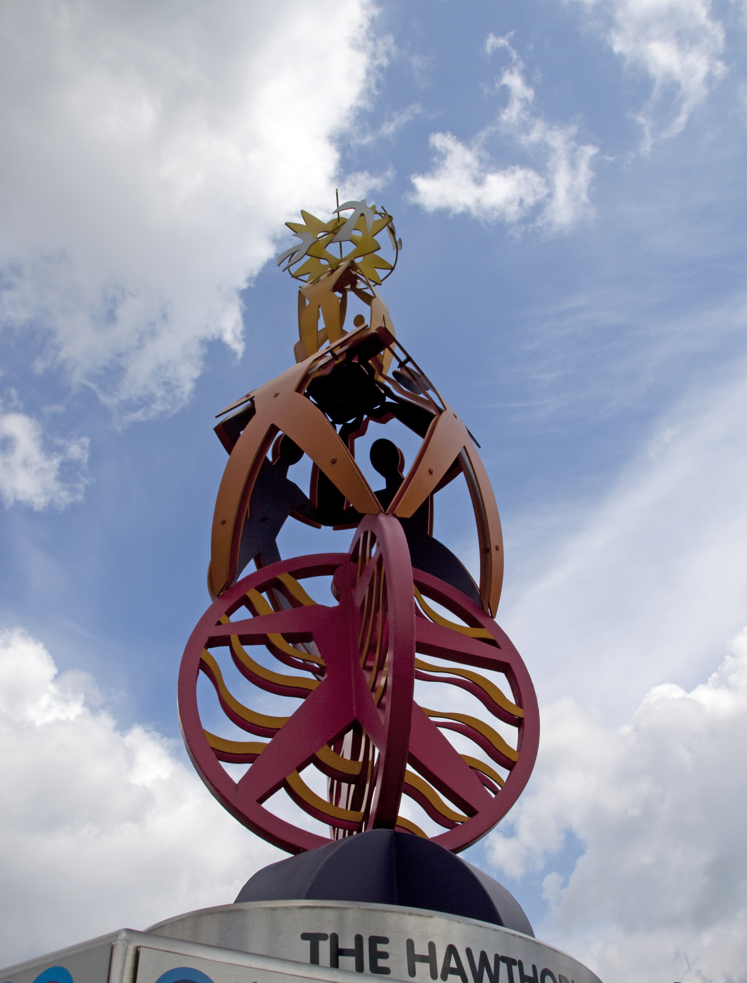 Another example of a piece of Art next to a Centro transport interchange. This is by the Hawthorns Tram station. Called Aspire by Anuradha Patel